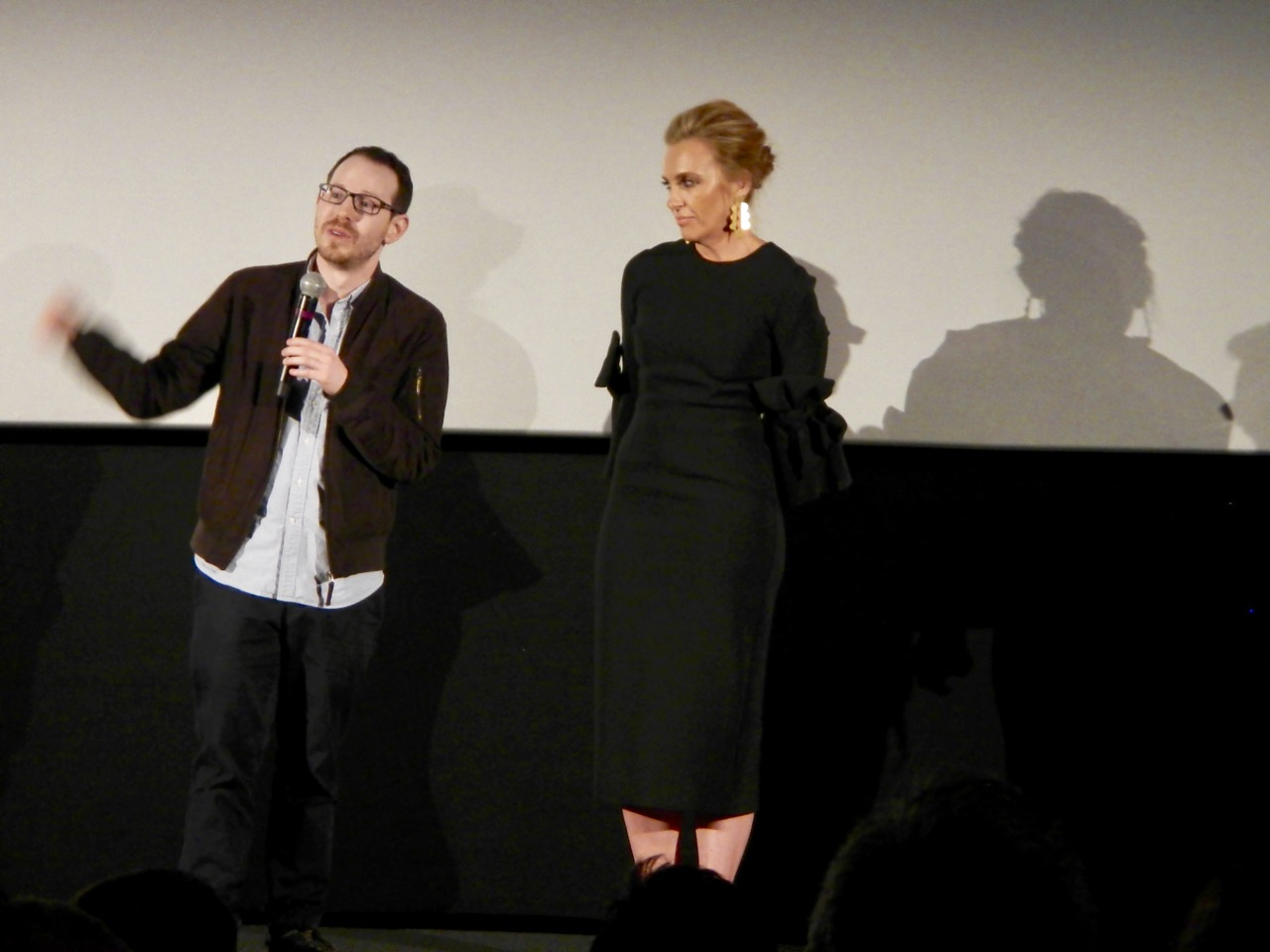 Hereditary director Ari Aster with Toni Collette at Sundance London UK